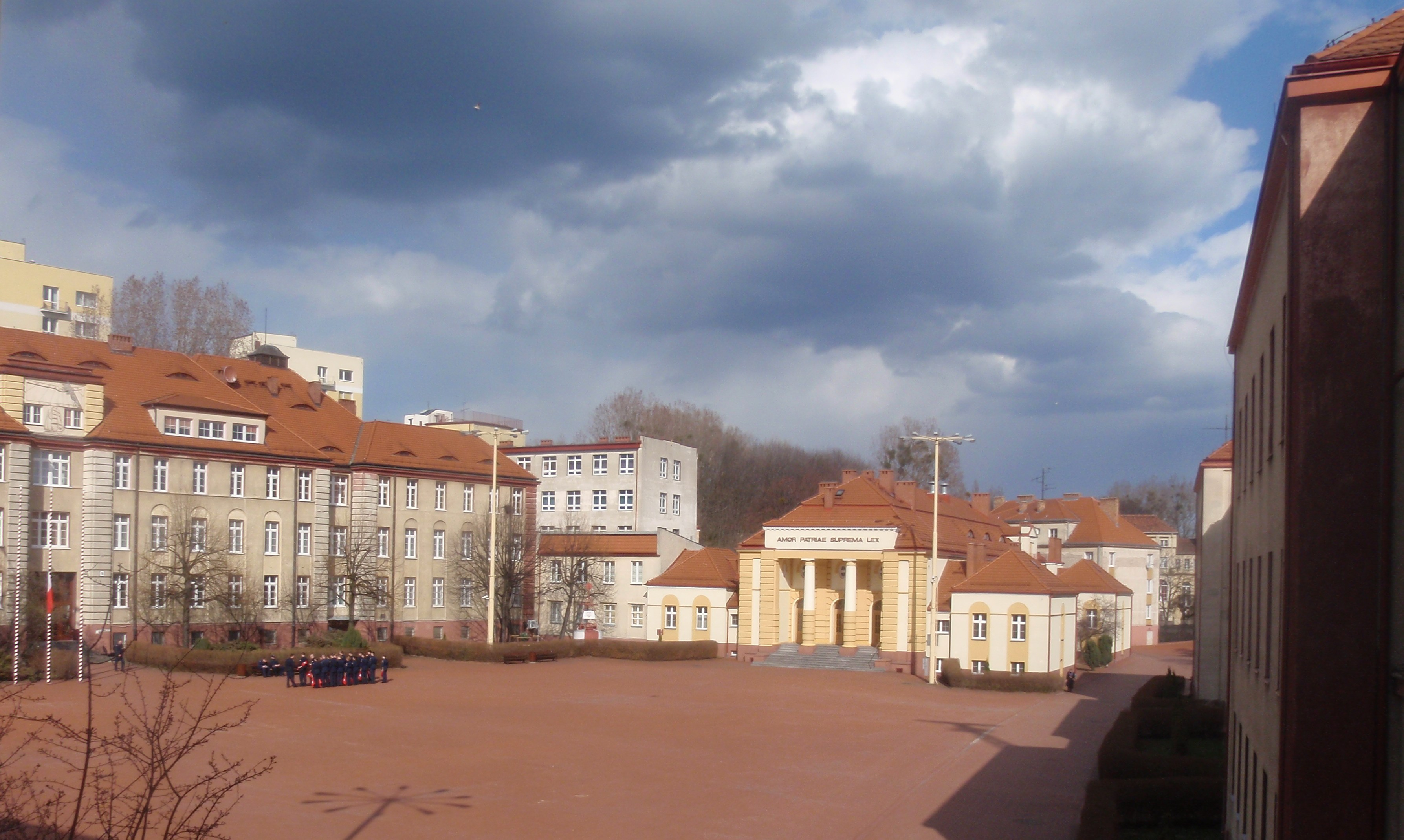 Courtyard of Polish Naval Academy, Gdynia.